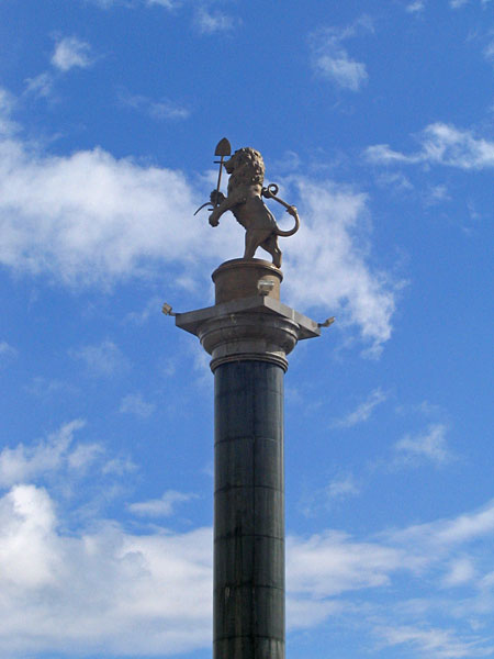 Krasnoyarsk symbol (leo)